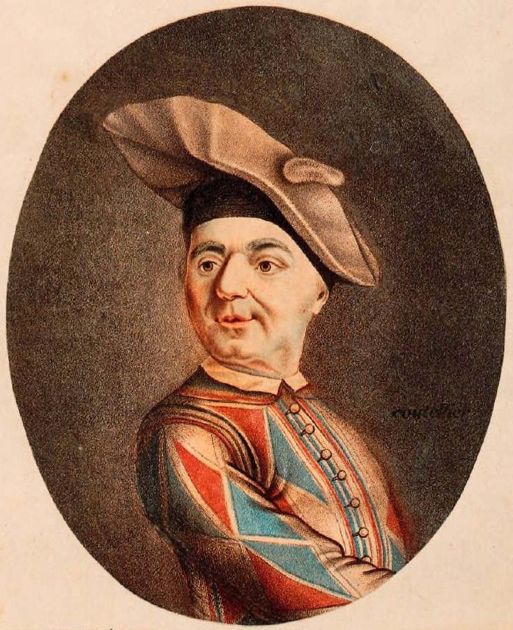 Italian actor and playwright Carlo Antonio Bertinazzi (1710-1783) by J. Coutellier (fl. 2nd half of 18th century, Paris)